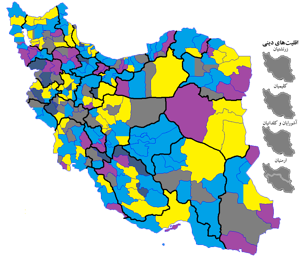 2016 Iranian legislative election results by map پرونده‌های پایه